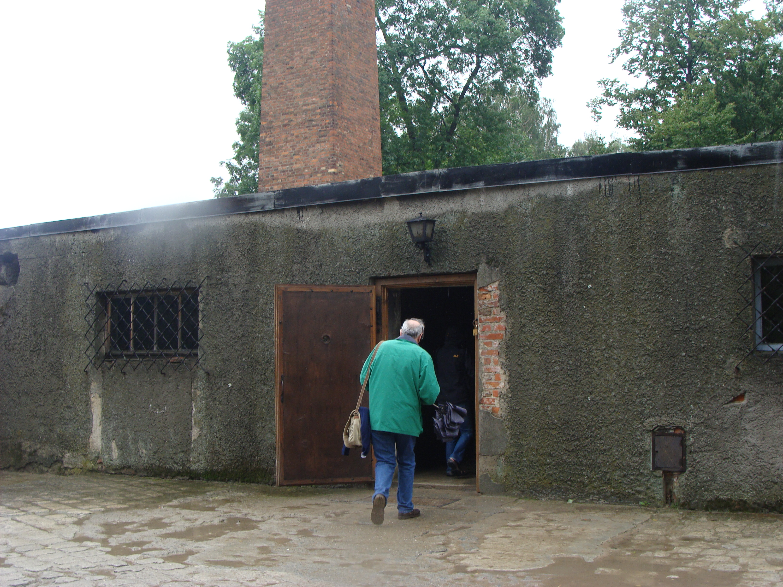 Auschwitz I, Gas chamber and crematorium